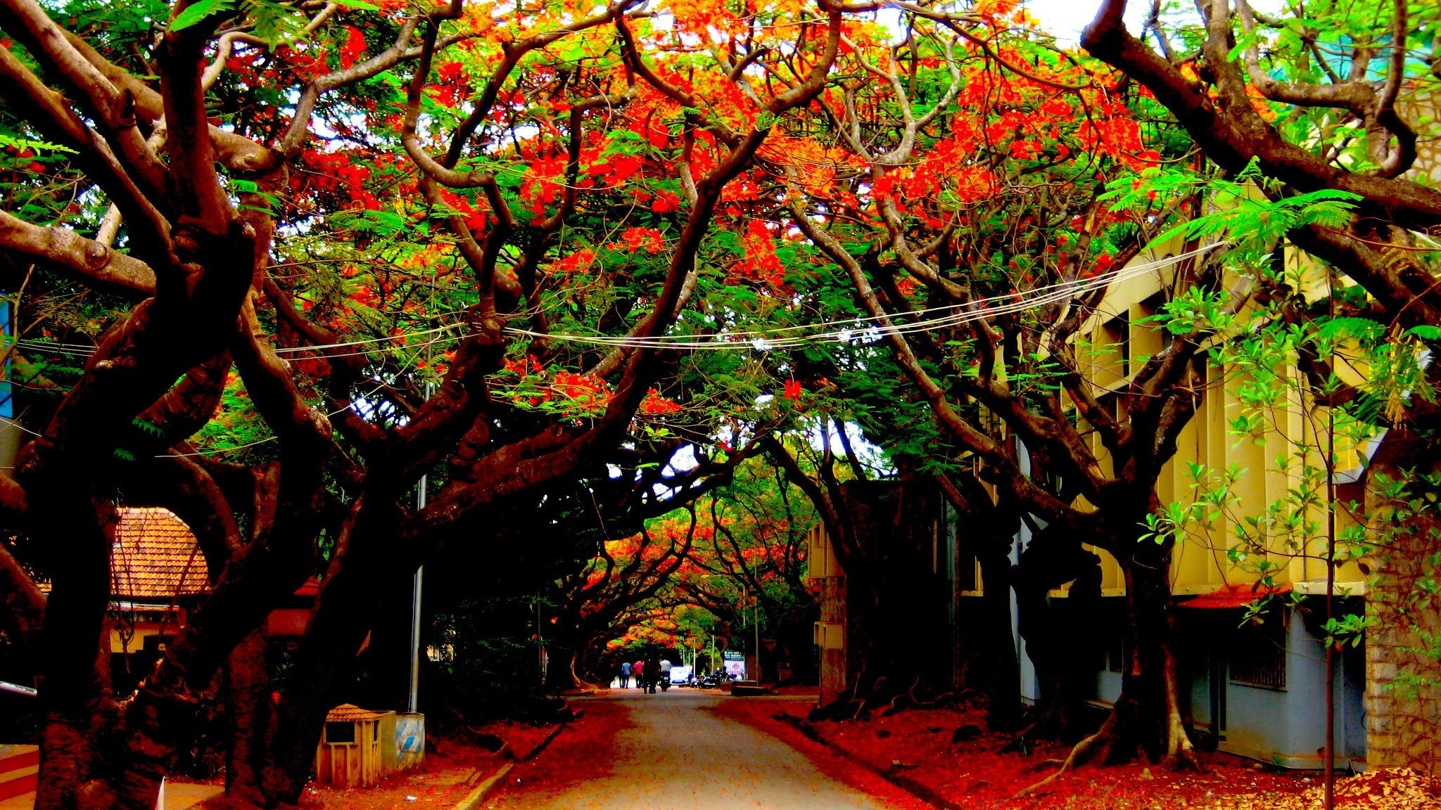 IISC Bangalore Campus